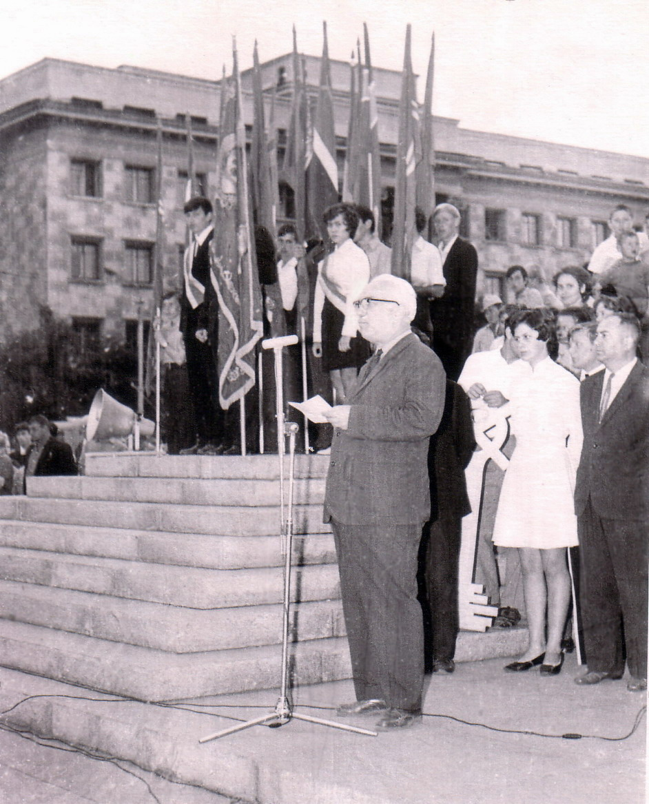 Aleksander Adolfovich Burba speaks at the dedication of the new students at the main square in Orenburg on the 1st of September, beginning of academic year (early 1970s).